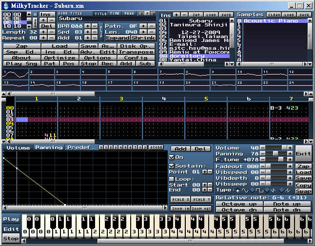 Instrument Page of Milkytracker